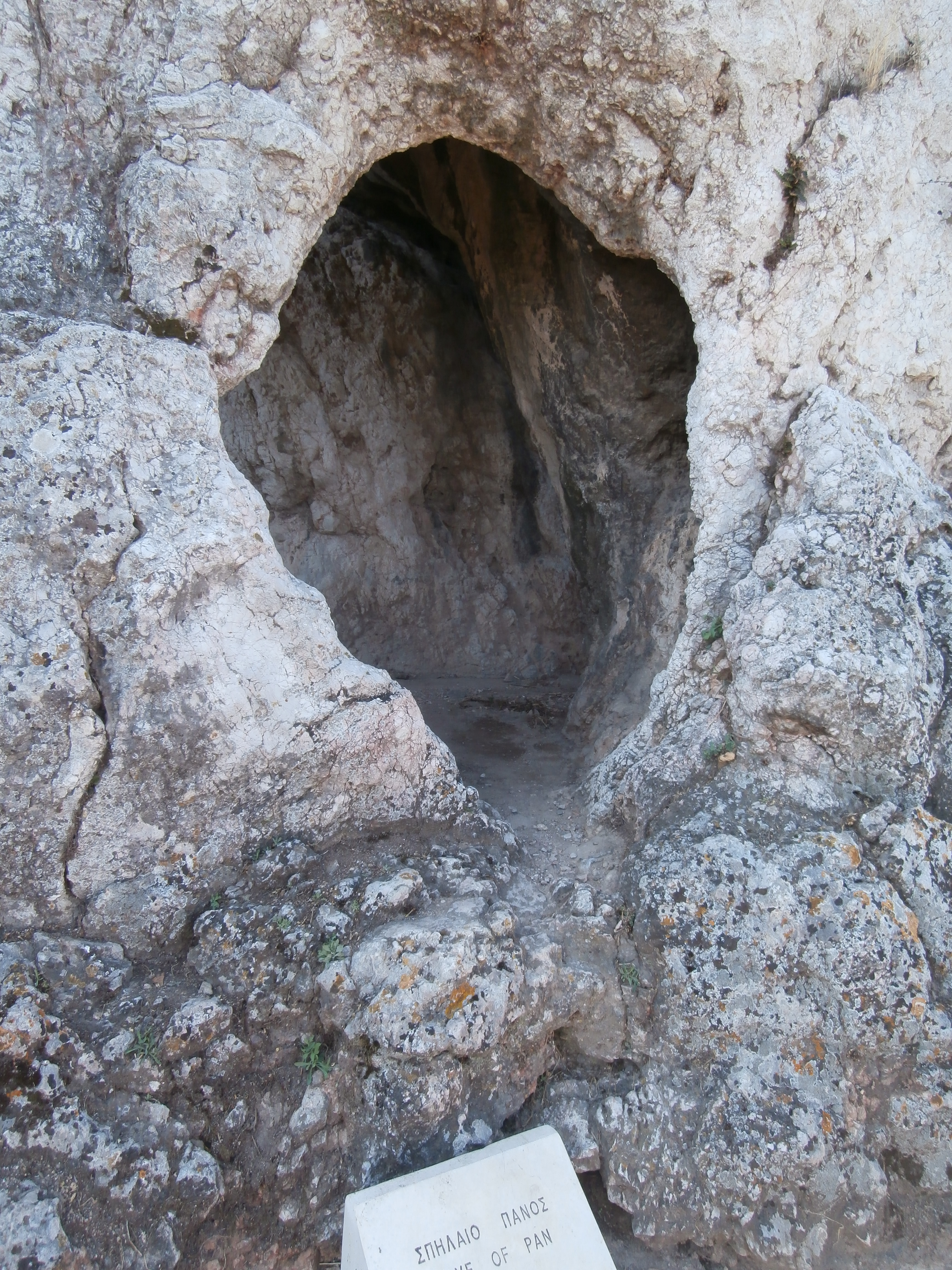 Cave of Pan, north slope of the Acropolis of Athens